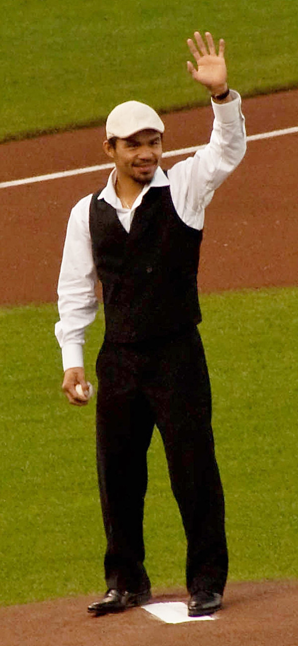 Manny Pacquiao about to throw out the first pitch at AT&T Park.